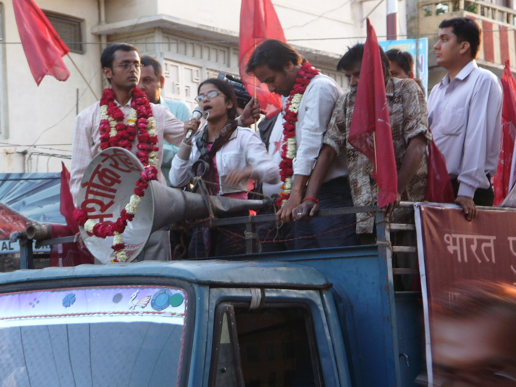 up elections